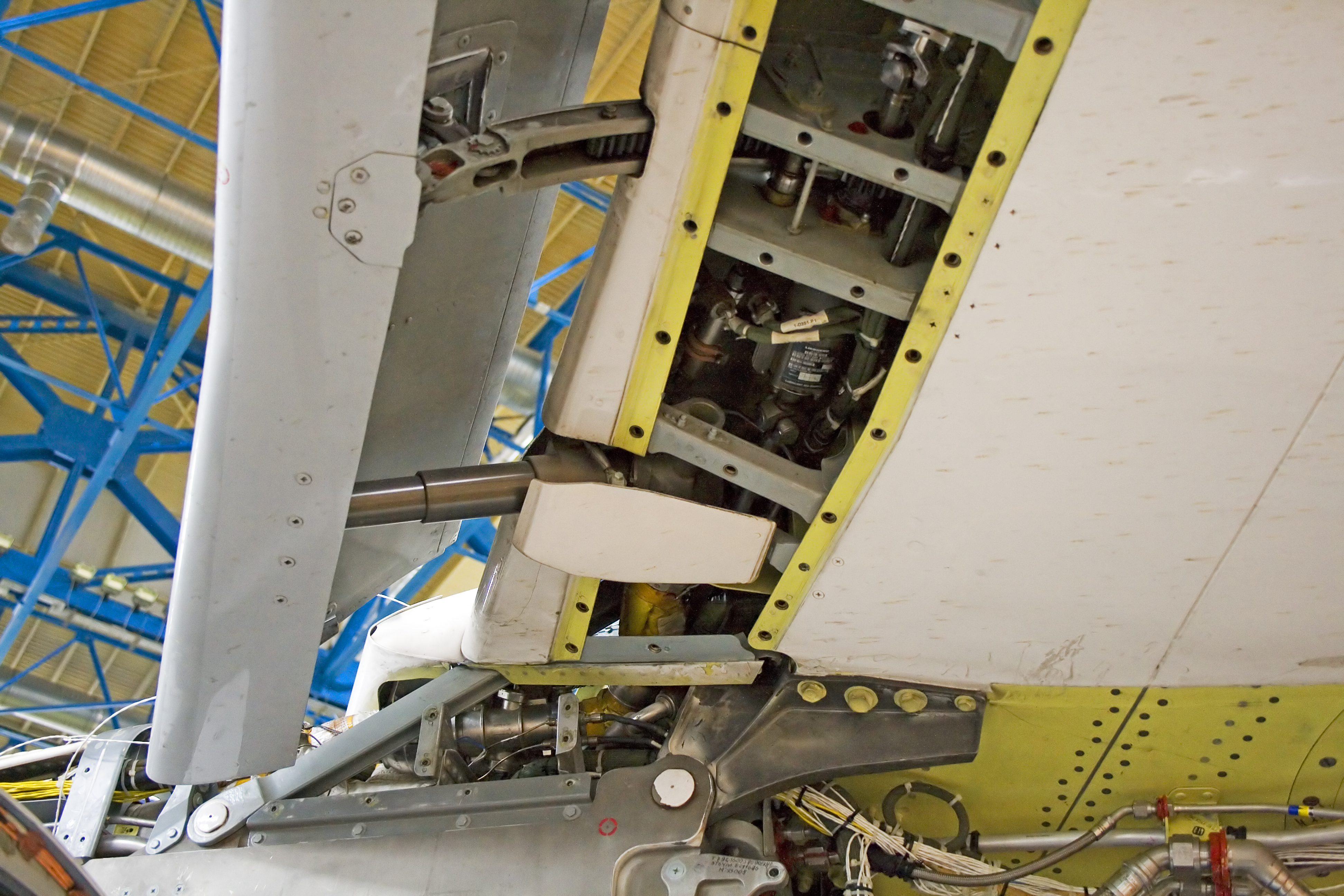 Visit to Flight Test Facility of Sukhoi Civilian Aircraft Company 23rd of May 2013